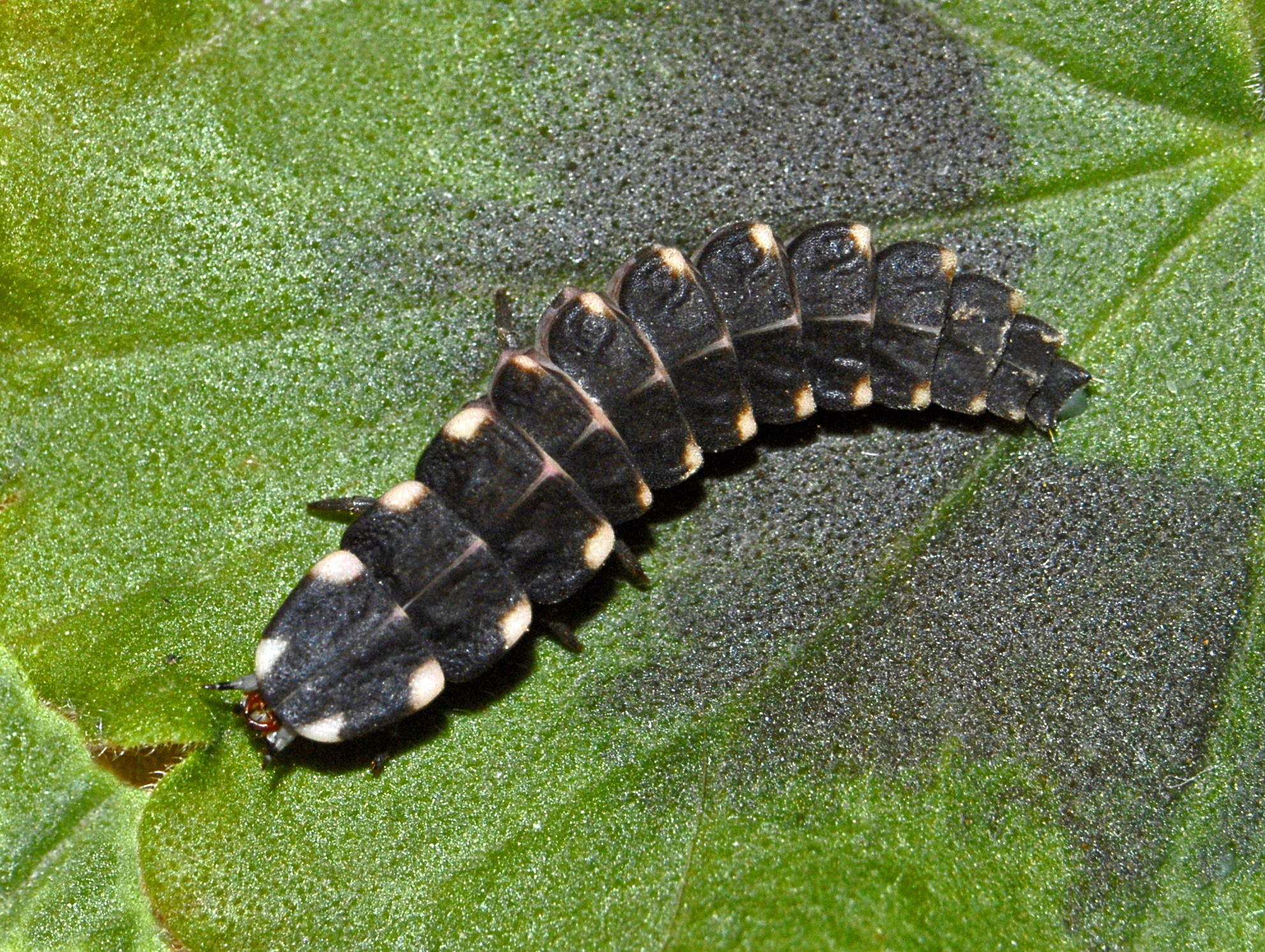 Larva of Lampyris raymondi. Genova, Italy